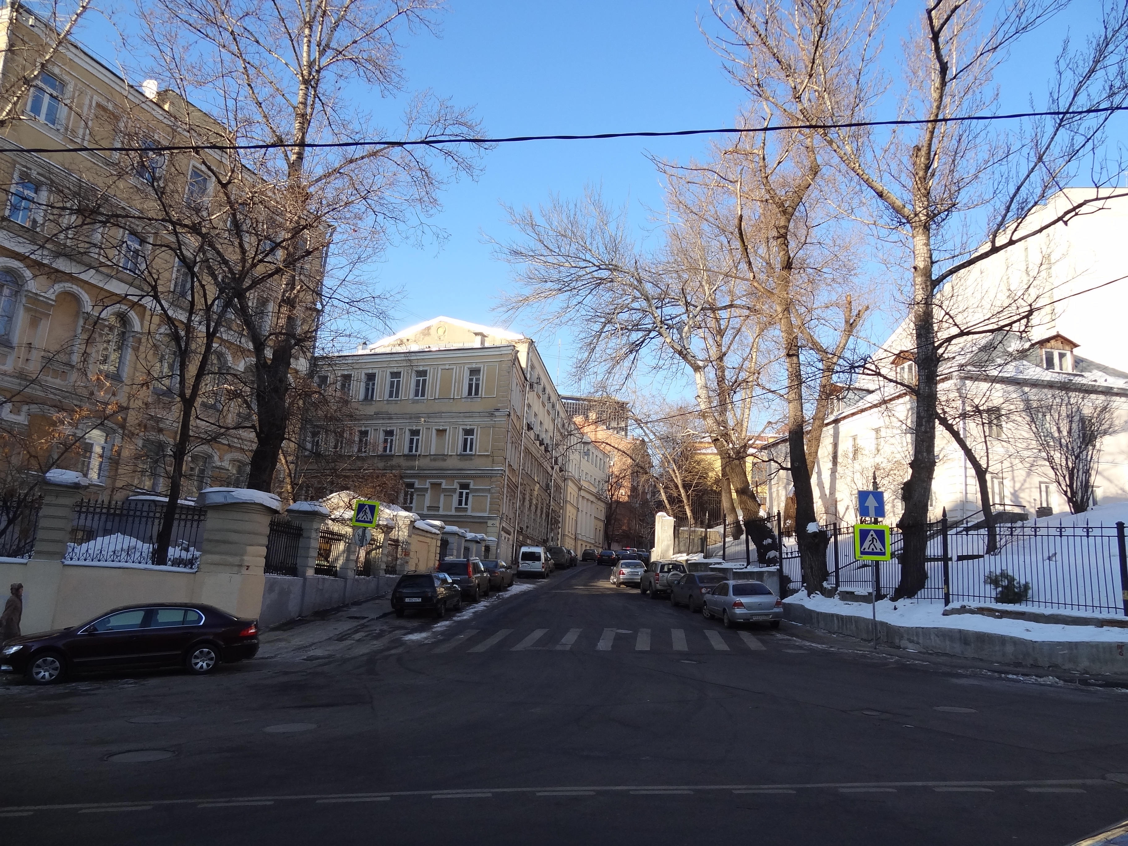 Starosadsky Lane - Basmanny District, Moscow, Russia